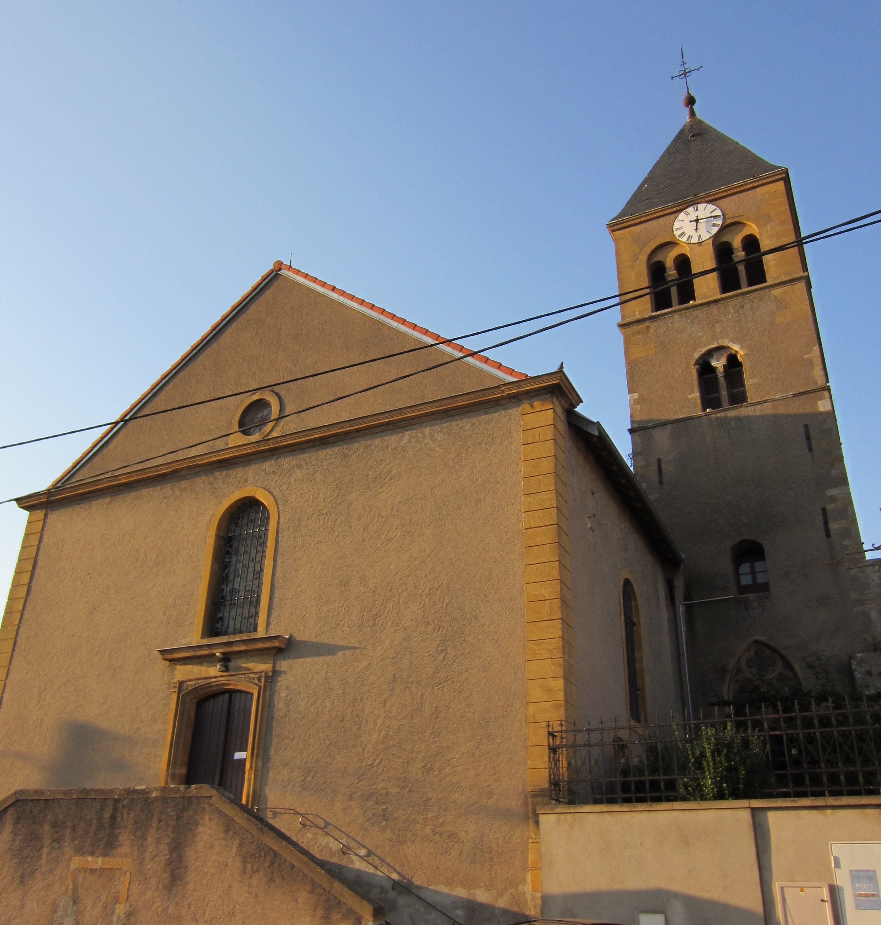 Description eglise Vallieres Metz Date26 September 2011Sourcemon appareil photoAuthorAimelaimePermission (Reusing this file) eglise Vallieres Metz